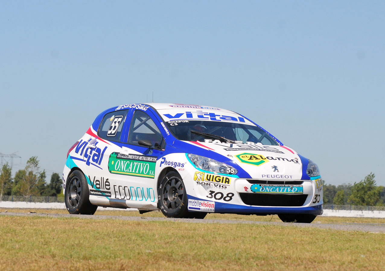 Facundo Chapur and his car Peugeot 308 (Vittal G Racing) Turismo Nacional Clase 3 (Argentina).